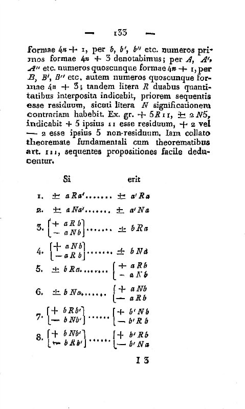 This is a scan of page 133 of the first edition of Gauss' Disquisitiones Arithmeticae, containing the quadratic reciprocity law. The symbols a and a` denote prime numbers of the form 4n+1, the symbols b and b` denote prime numbers of the form 4n+3. R stands for "is a square modulo" and N for "is not a square modulo". The third formula, for example, should be read as: If a is a square modulo b, or equivalently, if -a is not a square modulo b; then both b and -b are squares modulo a.